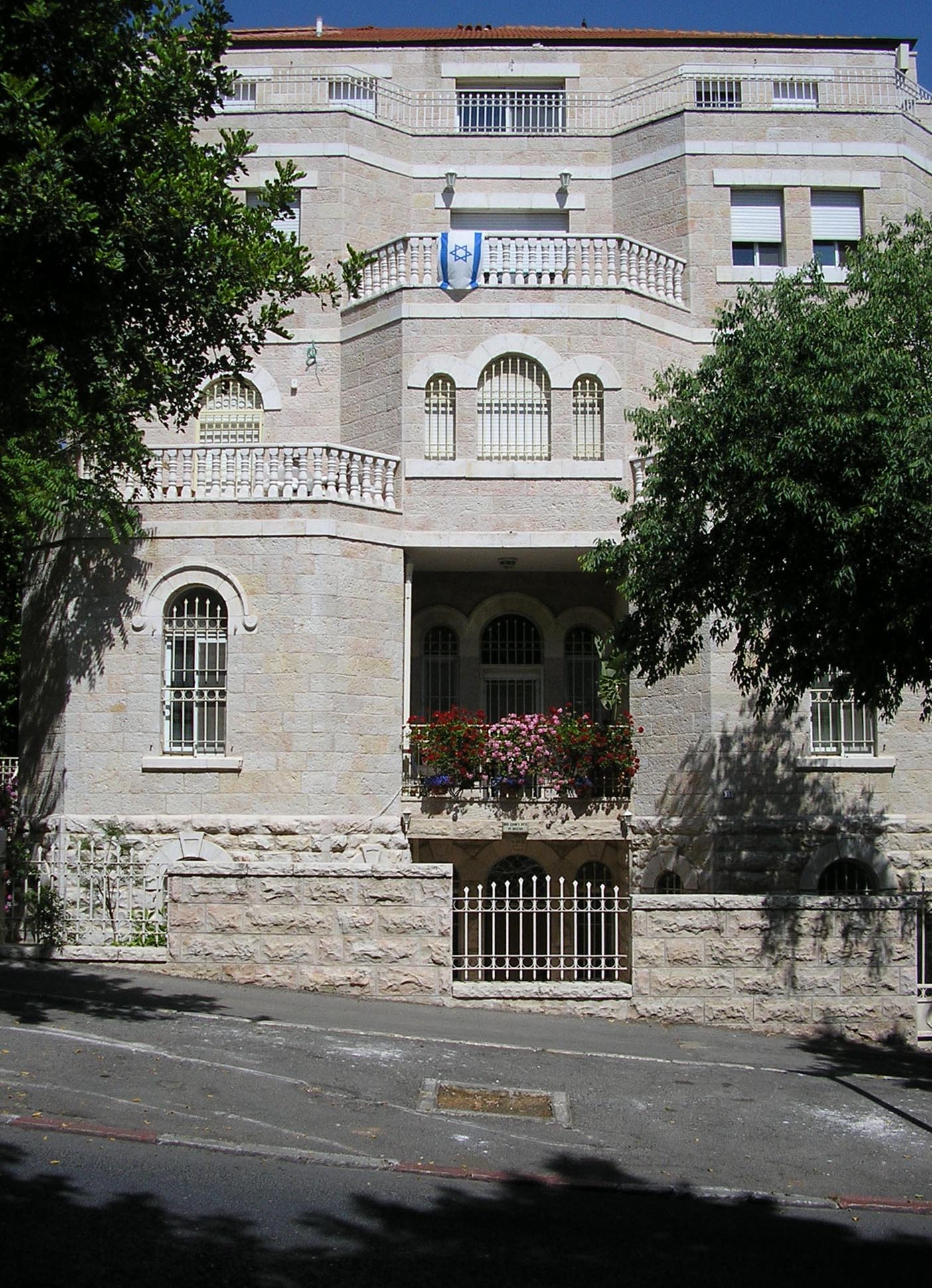 Jerusalem - Talbia